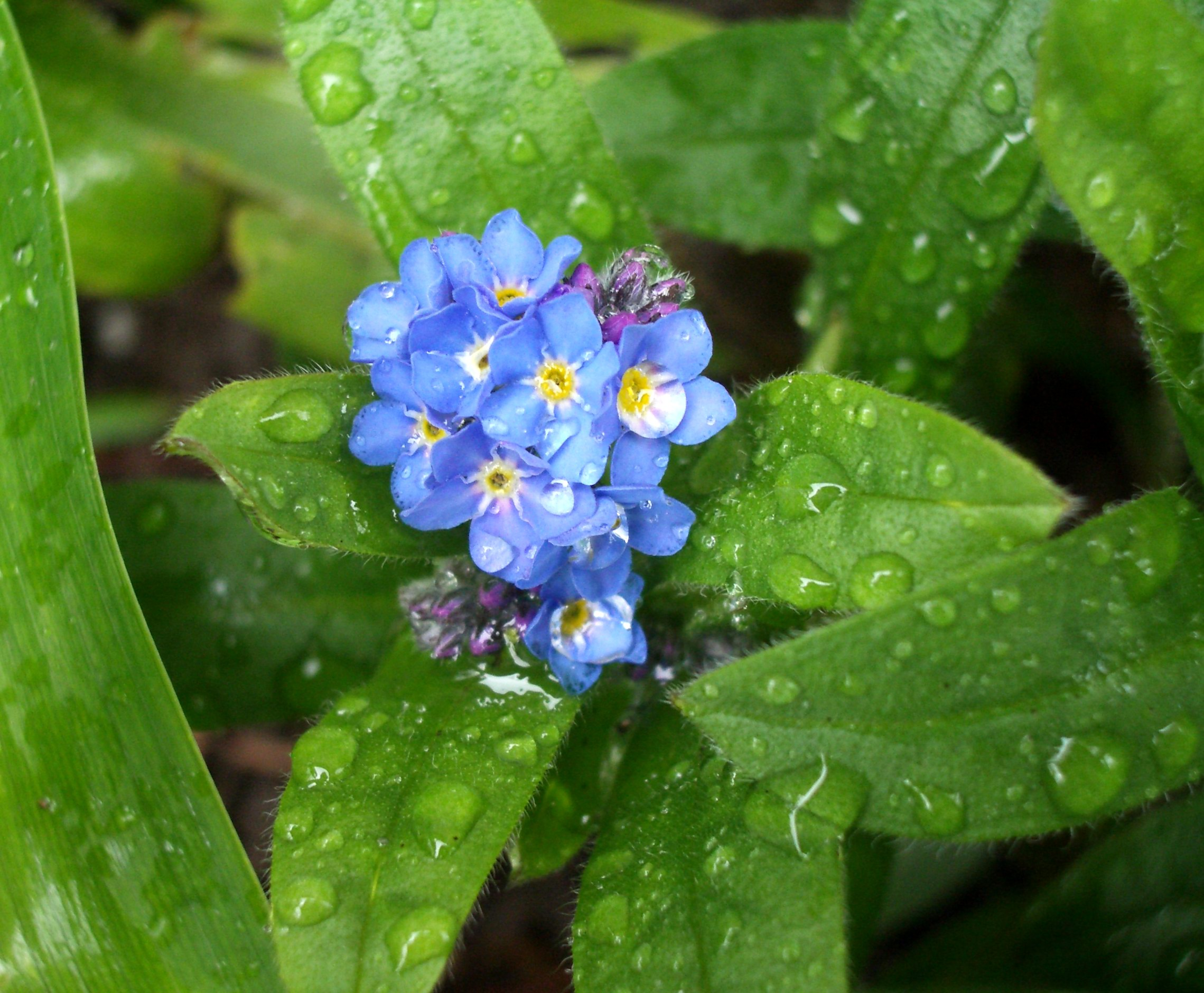 in Jean's garden. it rained in the morning. Myosotis scorpioides (Myosotis palustris) Family: Borage (Boraginaceae)Forget-me-nots - 1